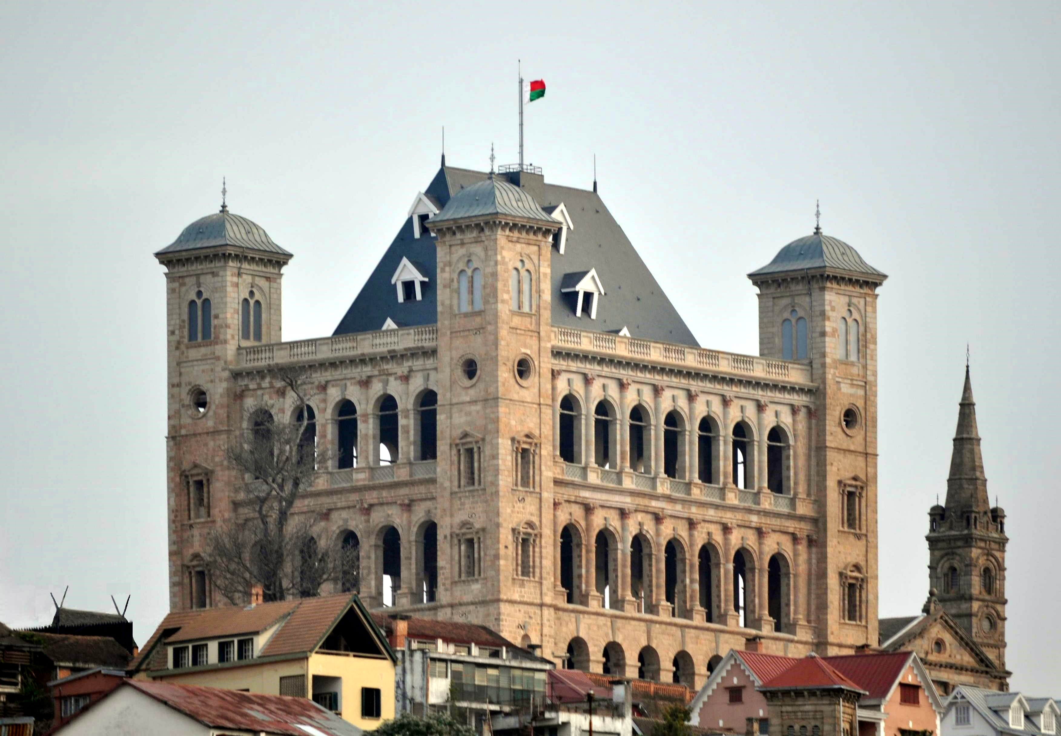 View of the reconstructed Manjakamiadana palace, Rova of Antananarivo, Madagascar